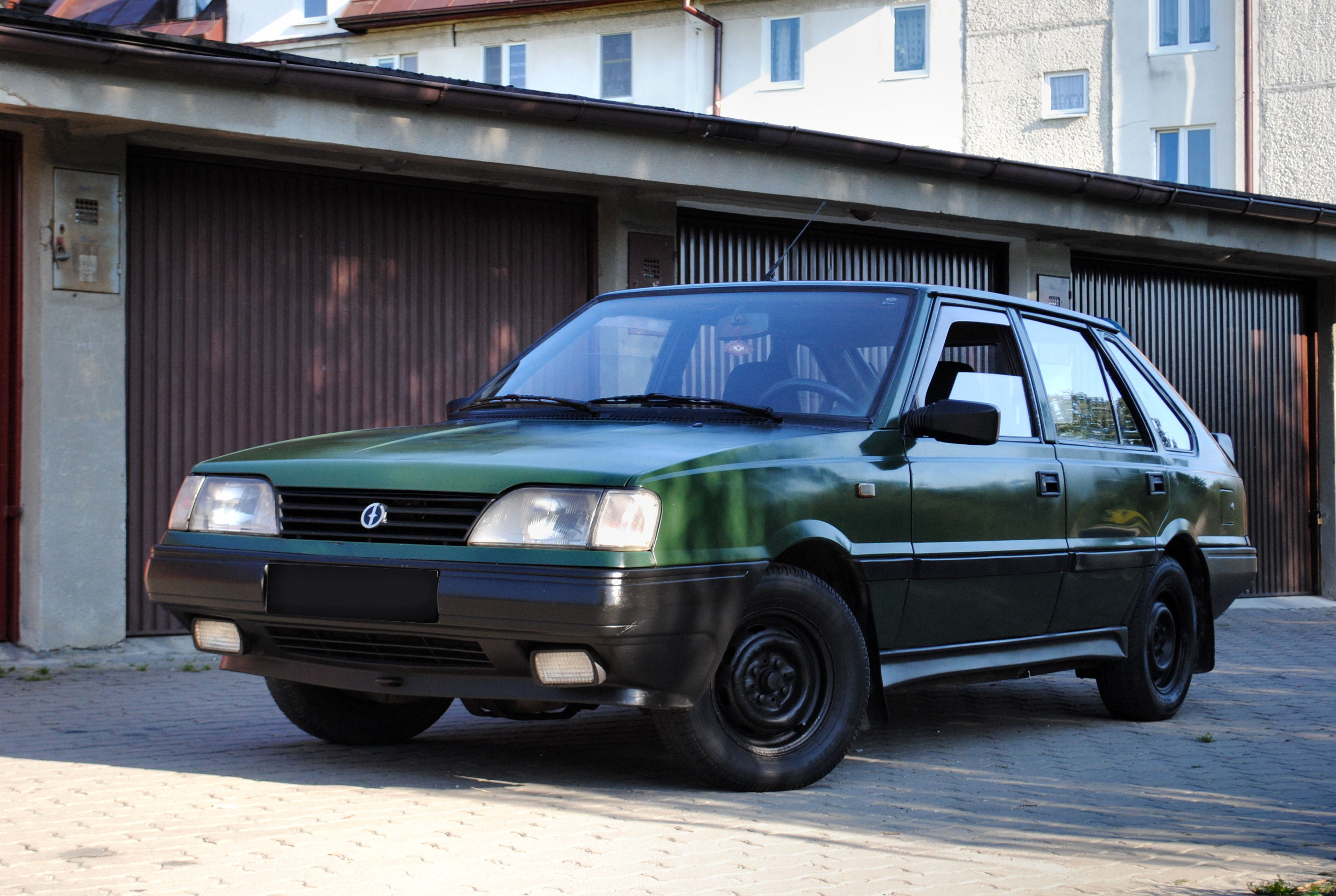 '94 FSO Polonez Caro 1.5 GLE (color code - L66)